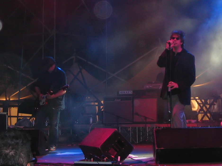 Echo & the Bunnymen at the Frequenze Disturbate festival, Fortezza abornoz (Urbino) on 6 August 2005.